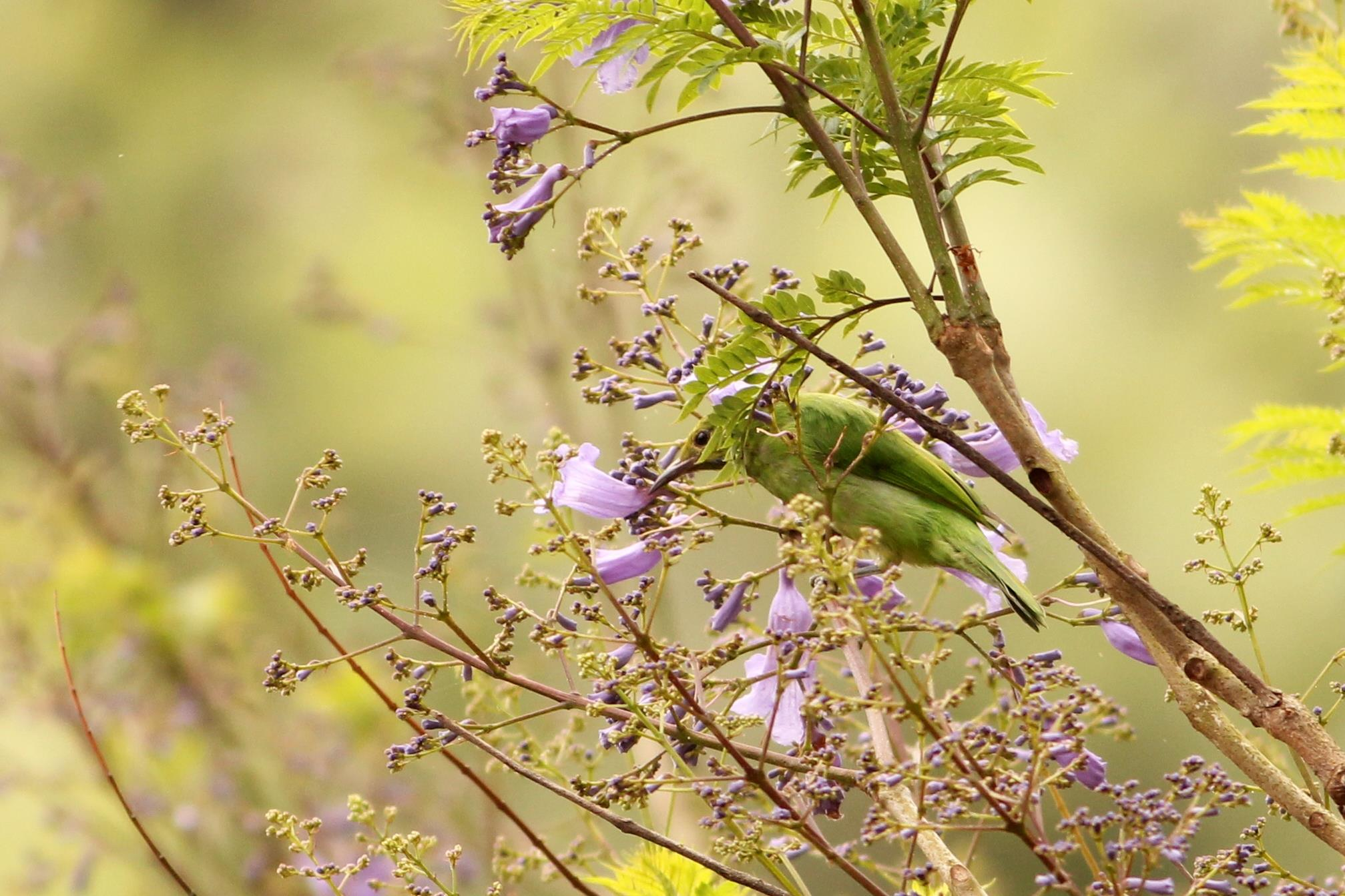 Emerald Dove